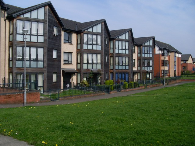 Modern flats in Easterhouse Traditionally seen as one of Glasgow's poorest areas, the area of Easterhouse has seen some level of redevelopment since the late 1990s.